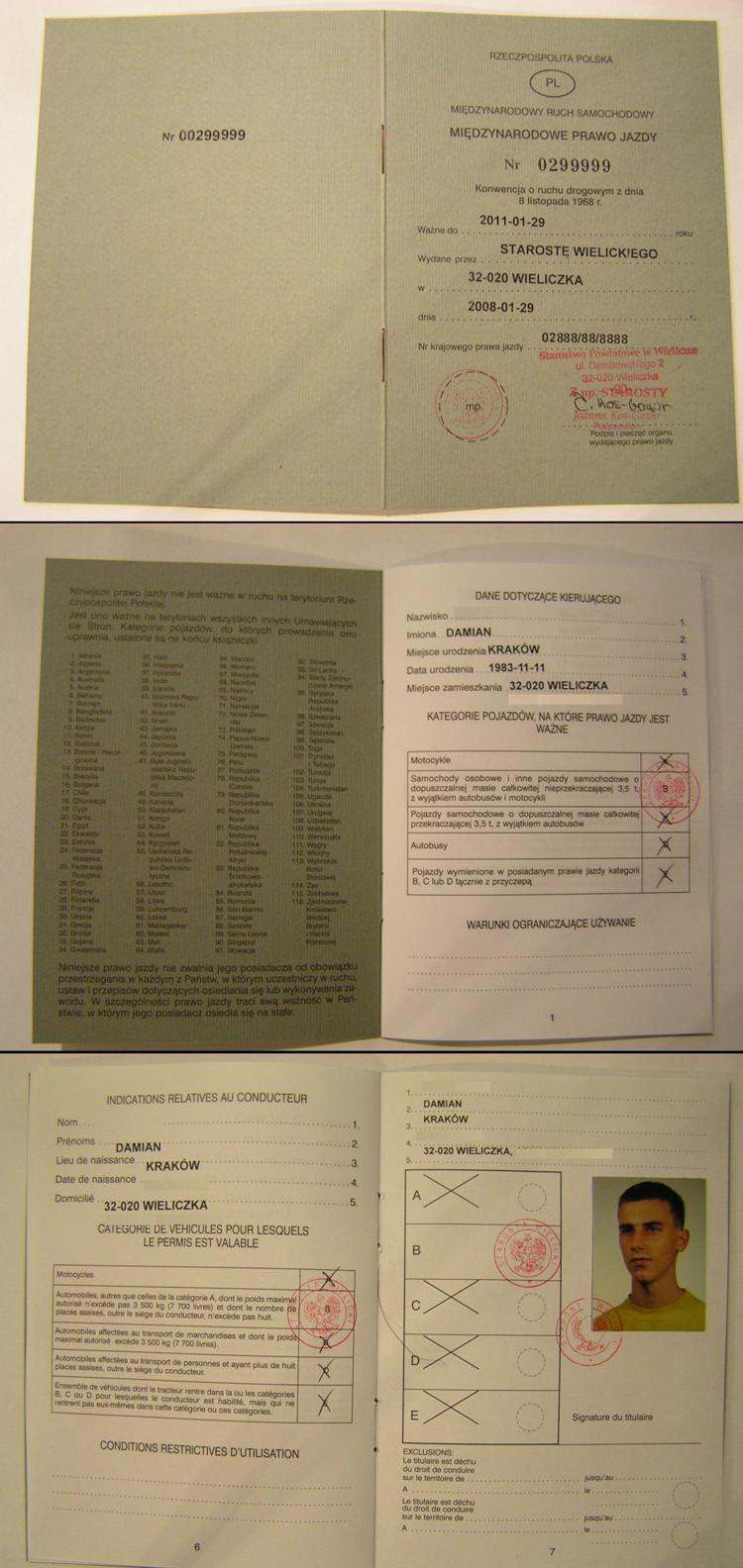 Polish Interiational Driving License 2008.jpg